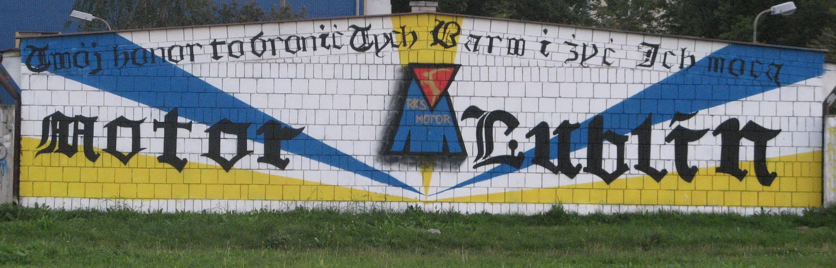 Motor Lublin graffiti in Lublin, Poland.